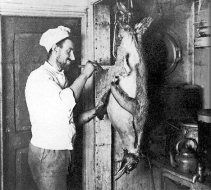 Charles Green, the Endurance's cook, preparing a penguin